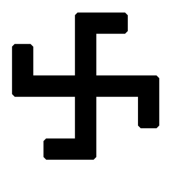 Swastika (with the sun)